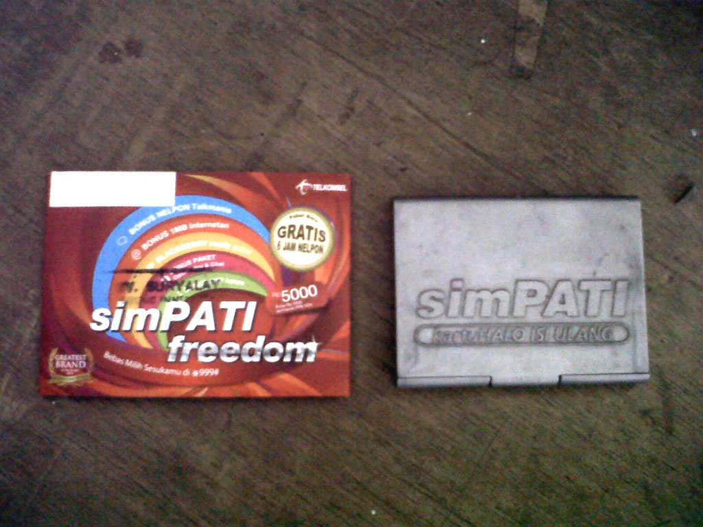 Indonesian GSM provider Telkomsel and his product: New SimPATI (left) and Old SimPATI (right).